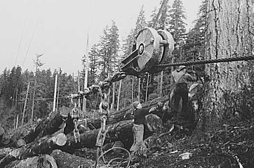 The choker puts choker loop on log for transportation from yard to yard by means of donkey engine, cables and spar tree. Long Bell Lumber Company, Cowlitz County, Washington